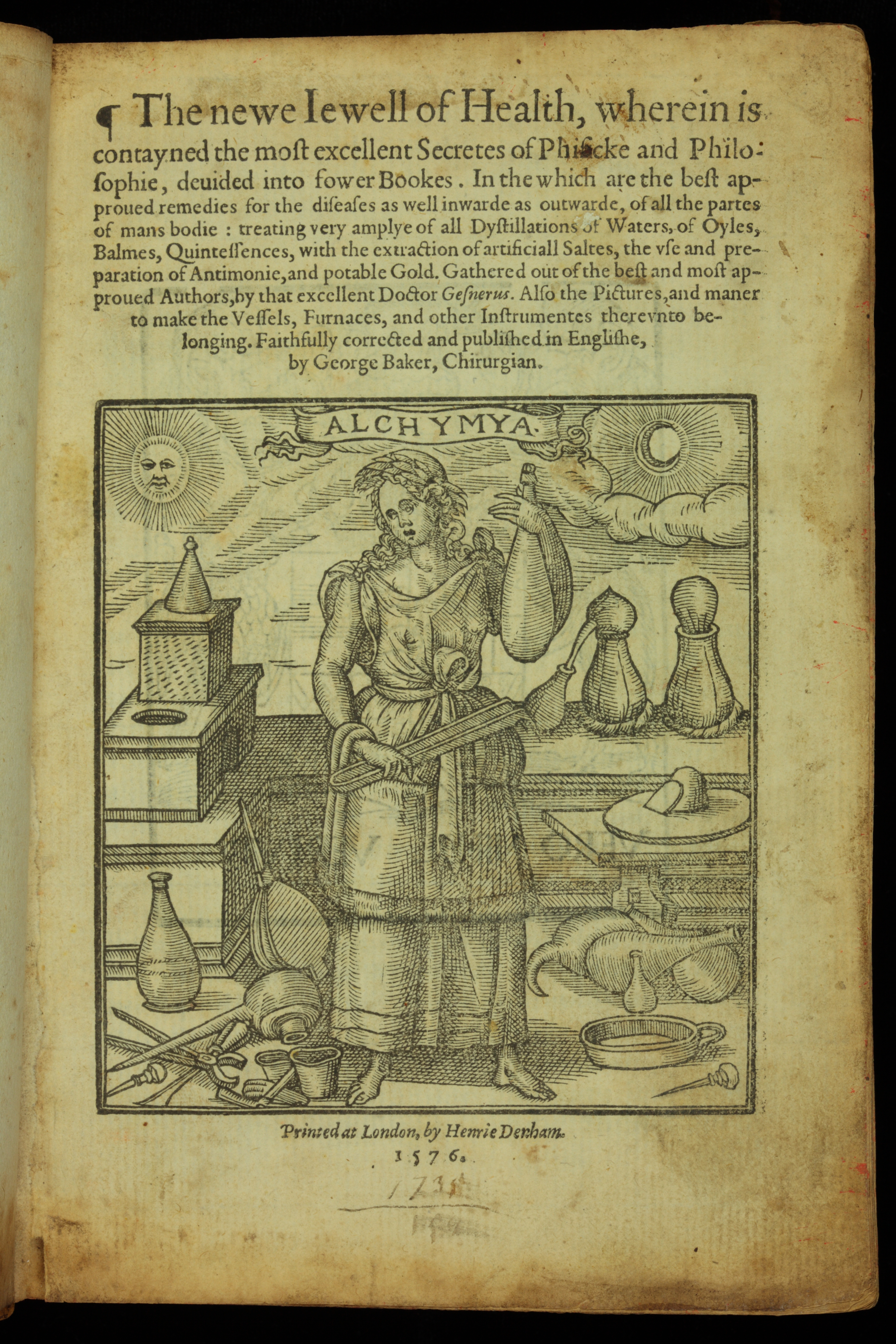 Title page from The newe iewell of health : wherein is contayned the most excellent secretes of phisicke and philosophie, deuided into fower bookes, in the which are the best approued remedies for the diseases as well inwarde as outwarde, of all the partes of mans bodie : treating very amplye of all dystillations of waters, of oyles, balmes, quintessences, with the extraction of artificiall saltes, the vse and preparation of antimonie, and potable gold / gathered out of the best and most approved authors, by that excellent Doctor Gesnerus ; also the pictures, and maner to make the vessels, furnaces, and other instrumentes there unto belonging ; faithfully corrected and published in Englishe, by George Baker ... Conrad Gessner, 1516-1565. Translated by George Baker. Printed at London : by Henrie Denham, 1576. Alchemy is personified on this title page as a woman, with the sun and moon on either side, titled "Alchymya". She is surrounded by alchemical apparatus, and holds a flask and a measure. In addition to the more conventional applications from distilling, alchemy introduced new medicines, like the violent purgative antimony and a drinkable extract of gold called aurum potabile.